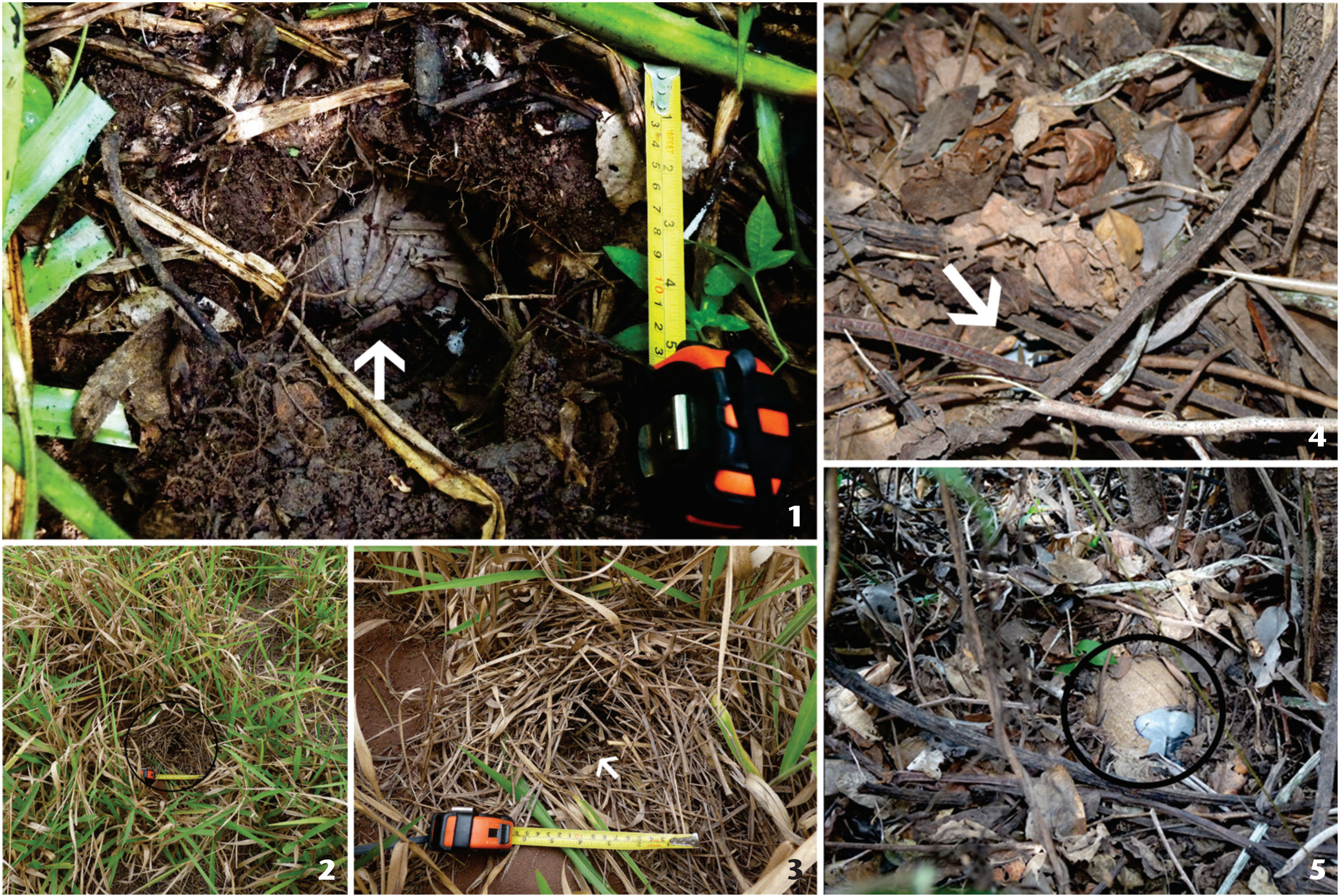 An individual of Tolypeutes matacus (arrow) resting inside its burrow at Santa Teresa Ranch, Corumbá, Mato Grosso do Sul (1). Straw-nest built by Tolypeutes matacus in a pasture area at Duas Lagoas Ranch, Cáceres, Mato Grosso: upper view of the nest (circle) (2) and close-up of the same nest (arrow indicates the entrance of the nest) (3). An almost imperceptible individual of Tolypeutes matacus resting in a depression under leaf litter at Santa Teresa Ranch, Corumbá. The arrow points to the only visible part of the carapace (4). The same GPS-fitted animal resting in the depression after we manually removed some of the leaf litter to expose part of its carapace (circled) (5).